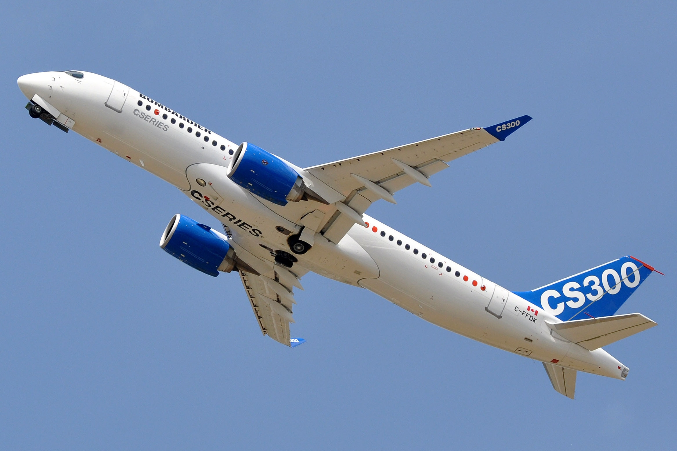 MSN 55001 Bombardier BD-500-1A11 CS300 BOMBARDIER AEROSPACE LBG AIRPORT SIAE 2015 first CS300 prototype, rg 03/11/14, ff 02/27/15